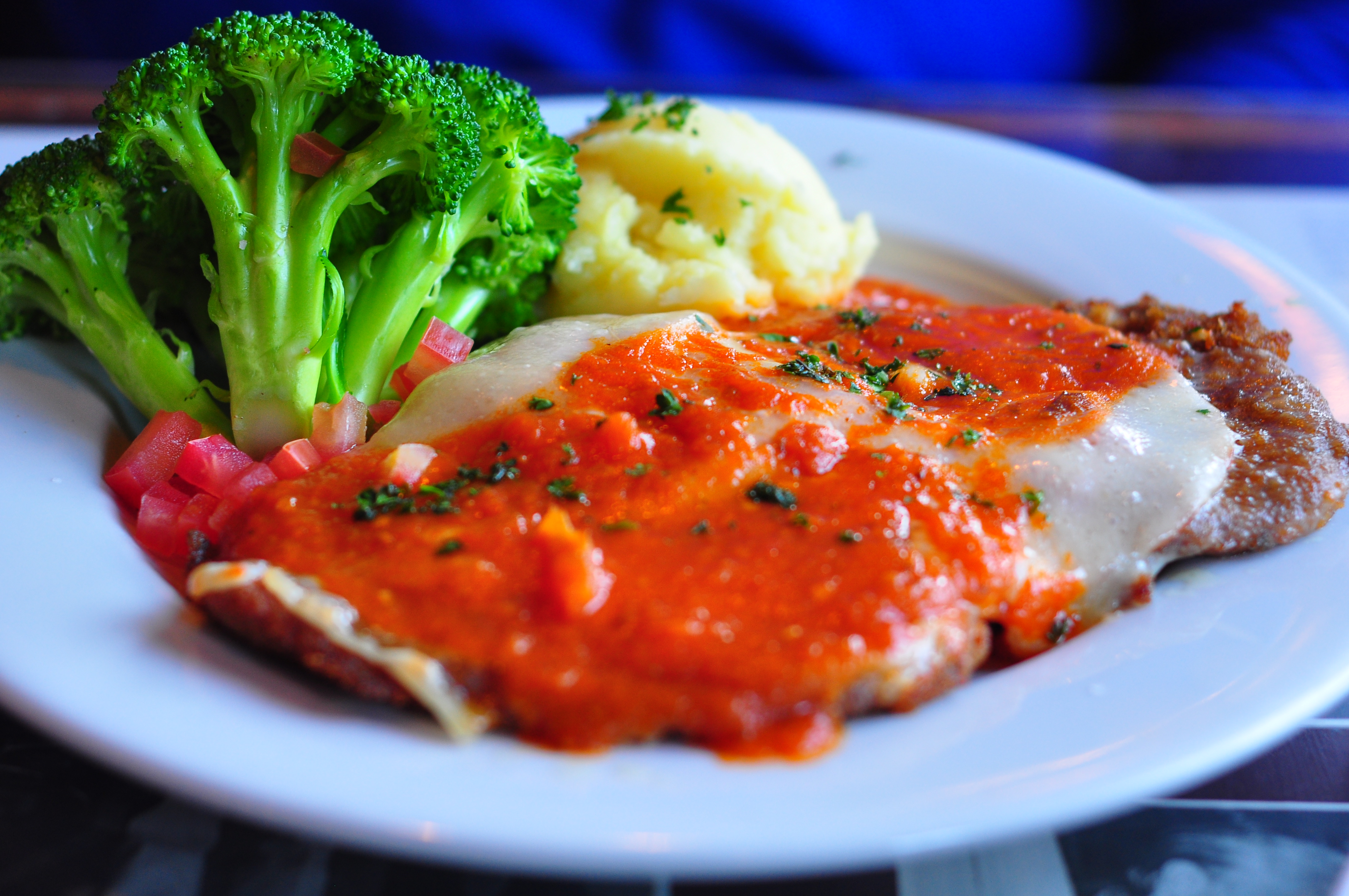 Two tender and breaded beef cutlets blanketed with ham, mozzarella cheese, and homemade marinara sauce, baked until melted. Served with Yukon Gold mashed potatoes and broccoli florets.